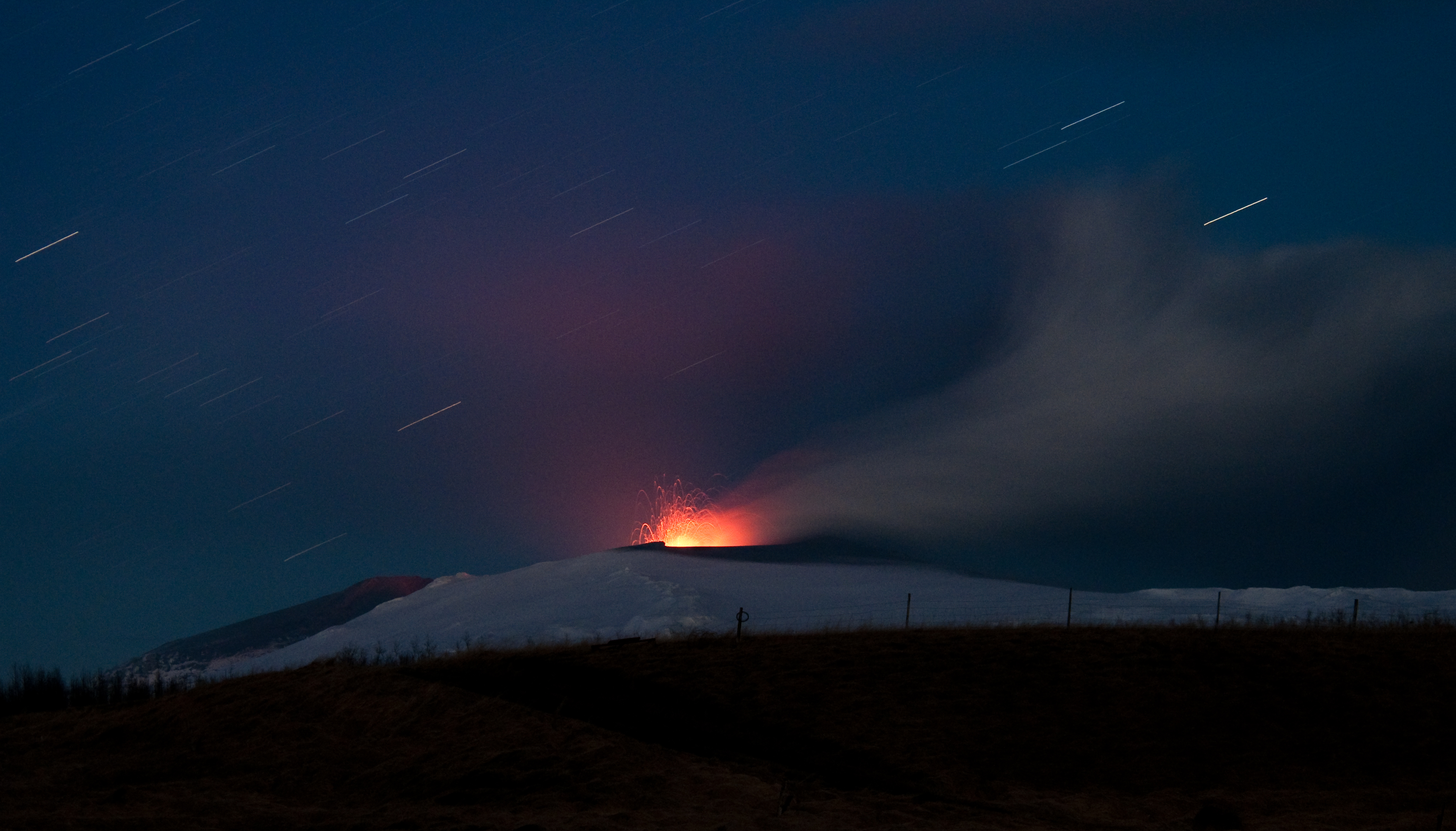 The second eruption seen from Fljótshlíð. The highest lava cascades seen in the picture are roughly 500 m high.